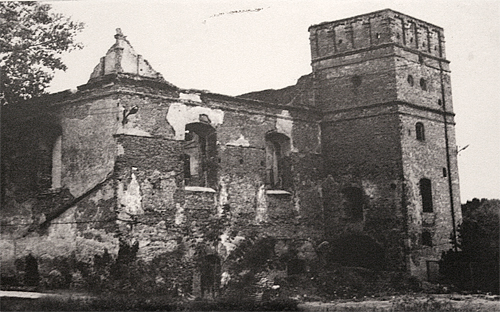 the great synagogue of Lutsk destroyed in WW2